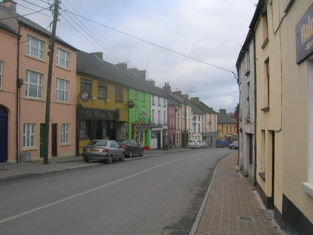 Castleblayney Muckno Street in Castleblayney town centre